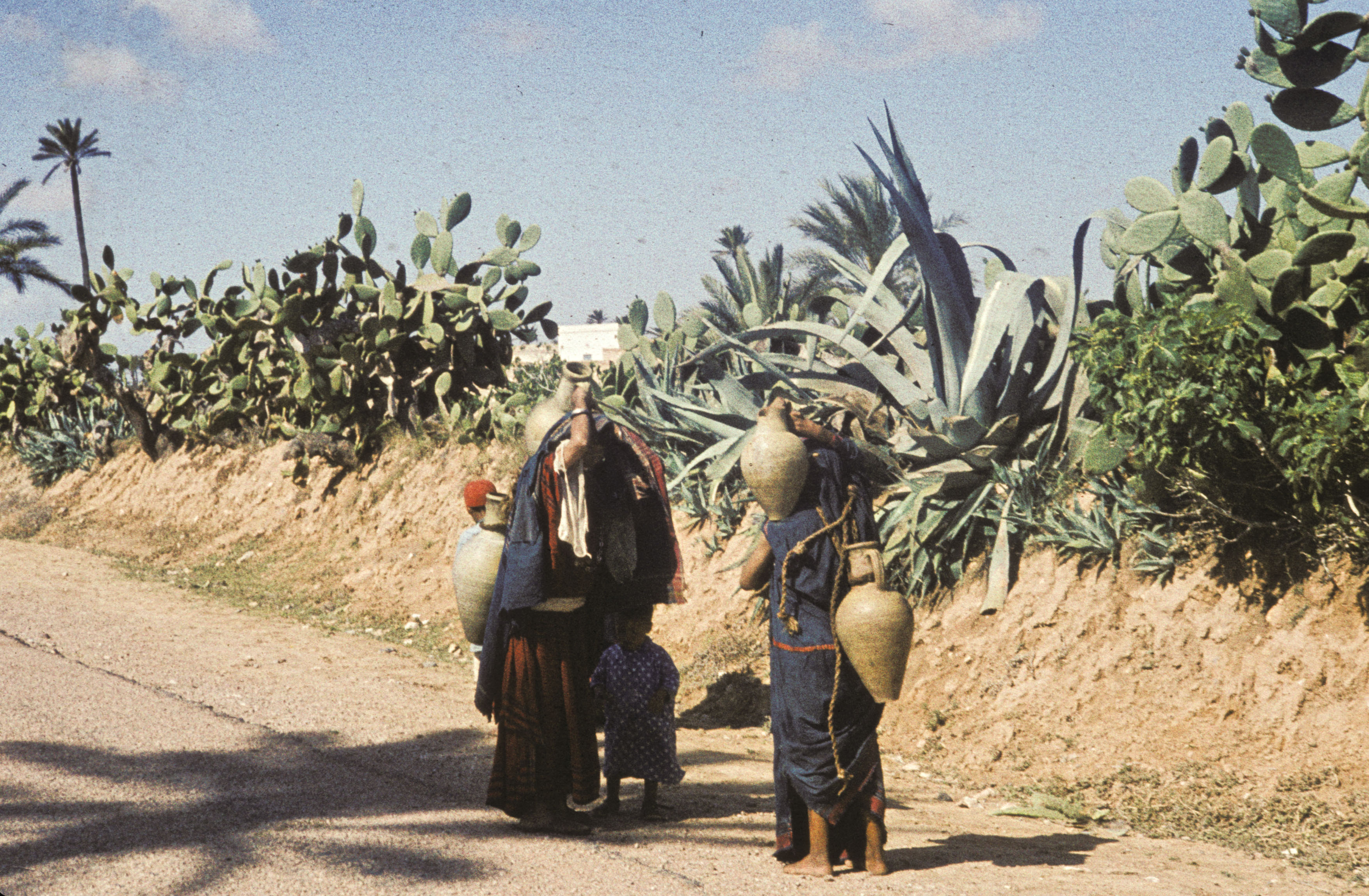 Conversation while bringing water. Djerba island, Tunisia